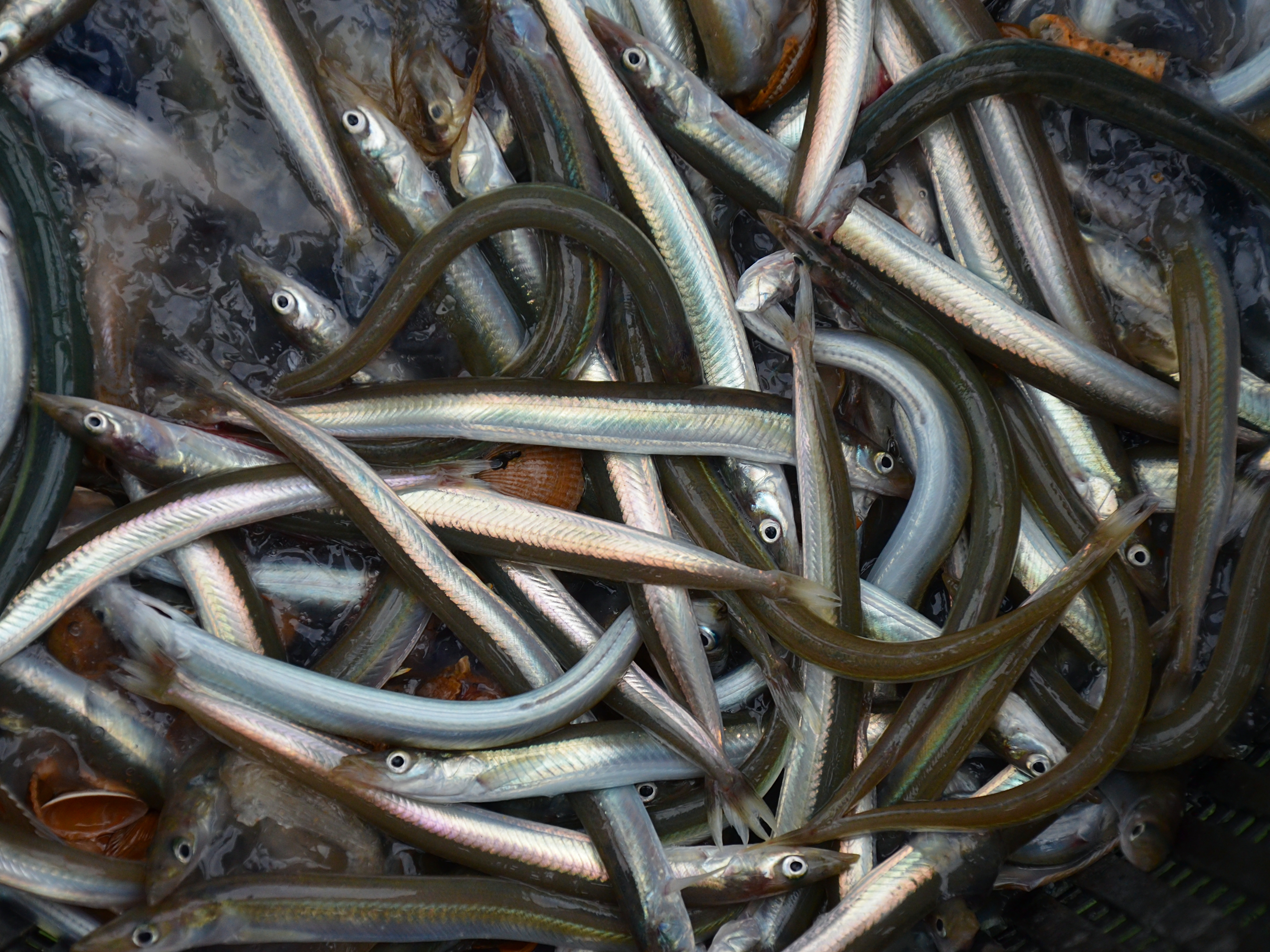 Lesser sand eel from the Hinderbanks, Belgium.